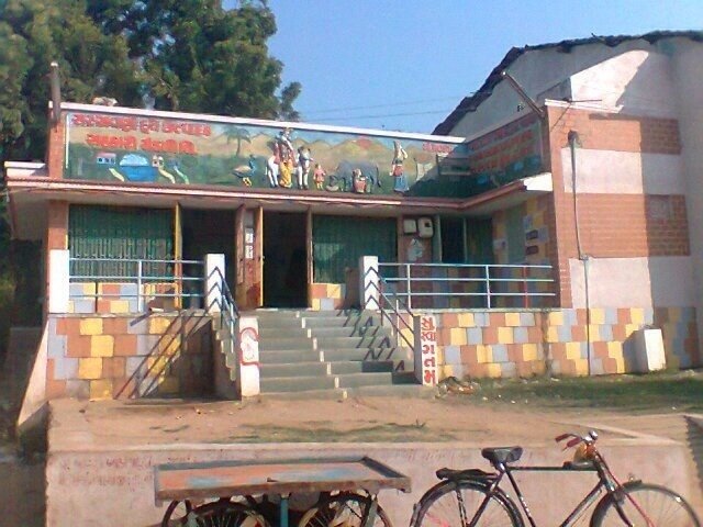 Saraswani milk producing co-operative society, which use to gather milk from villagers and sends to Amul.